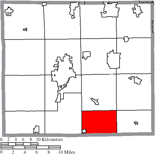 Map of the municipal and township boundaries of Wayne County, Ohio, United States, as of the 2000 census, with the location of Salt Creek Township highlighted. Township borders are shown only in unincorporated areas in order to differentiate incorporated and unincorporated areas more clearly.